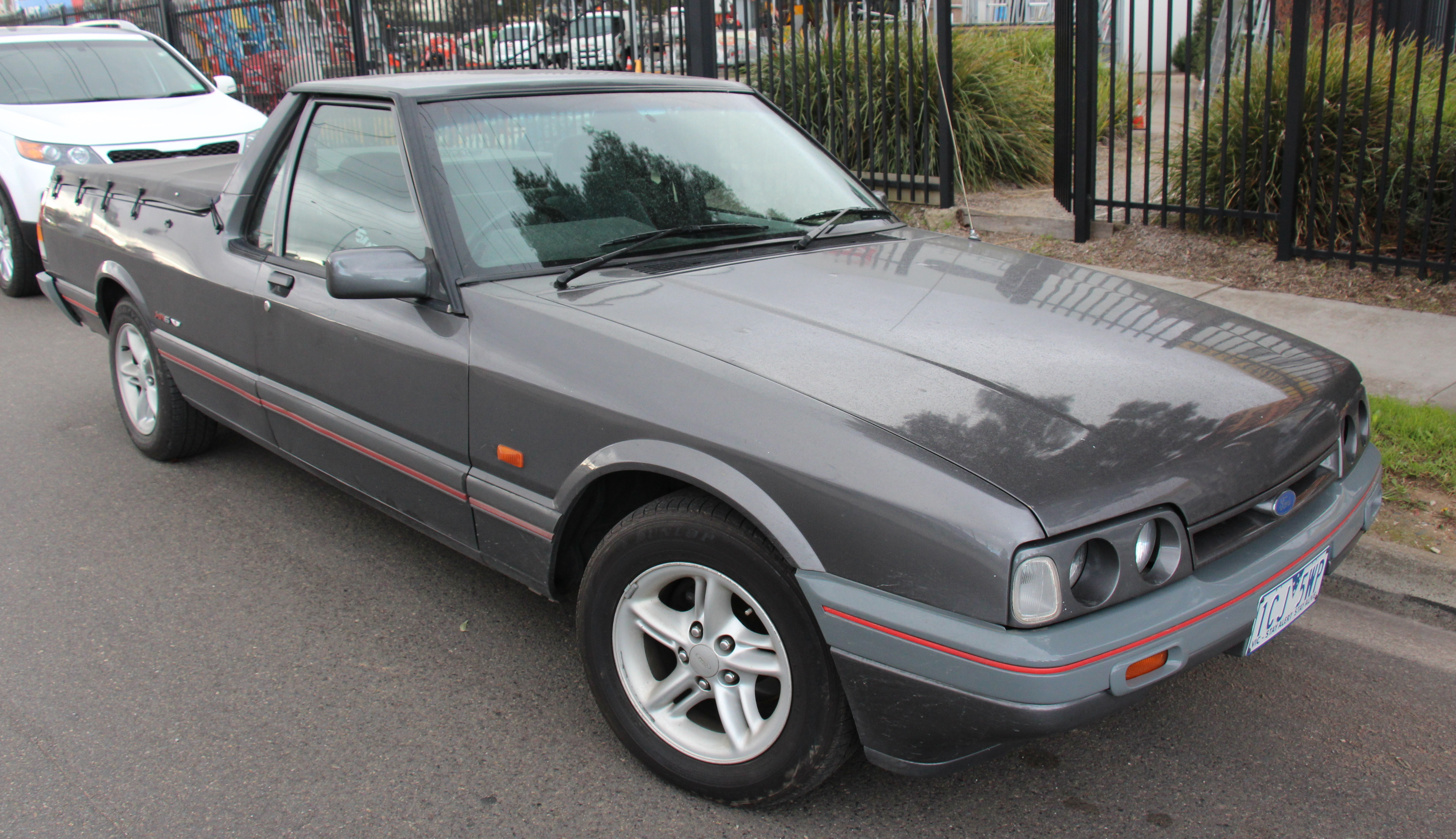 The XG Utility and Panel Van were built from March 93-March 96. In 1988, the XF Falcon was replaced by the completely new EA Series, resembling the Ford Scorpio of Europe. This new Falcon shape went through five Series, the EA, EB, ED, EF and EL, from 1988-1998, before being replaced by another new Falcon, the AU. With the EA to EL Falcons, there were no Utilitys or Panel Vans built in this shape, the old XF commercials (utility and panel van) continued on during this time. With the introduction of the EB, the grille on the ute got a minor update as well and it got the OHC 4.0 engine, now referred to as the XG Series The sporty XR6 was introduced with the EB Falcon, a similar front to the standard Falcon. With the XR6 in the next model, the ED, it got a quad headlight front. The XG followed suit, the XR6 got the quad headlight front too. Engine; 148kw 4.0 litre 6 cyl (161kw in XR6) Available in Longreach GLi Ute and Van, Longreach S Ute, Outback Ute and XR6 Ute Also GLi Panel Van With the restyle on the sedan in 1994, the EF, the front clip of the ute and van got a similar restyle in 1994, known as the XH